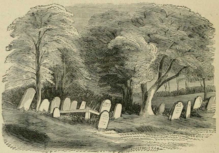 Moycreddin lower cemetery, sketched in August 1874 by Rev. John Canon O'Hanlon